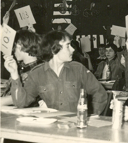 Et mindre udsnit fra Folkeskoleelevernes Landsorganisations 3. ordinære landsmøde i marts 1980 i Århus. Forrest ses foreningens daværende redaktør for Elev-Nyt Hans Jørgen Jensen.